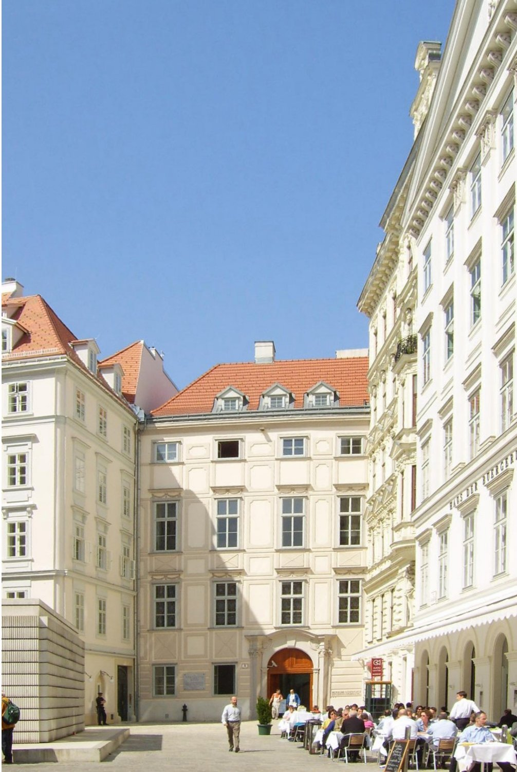 Blick auf das Museum Judenplatz. A tilted version of the original image.